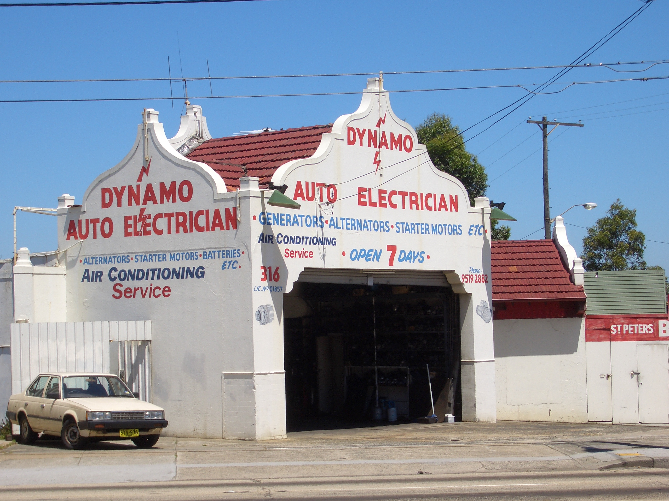 Garage on Princes Highway, St Peters, New South Wales